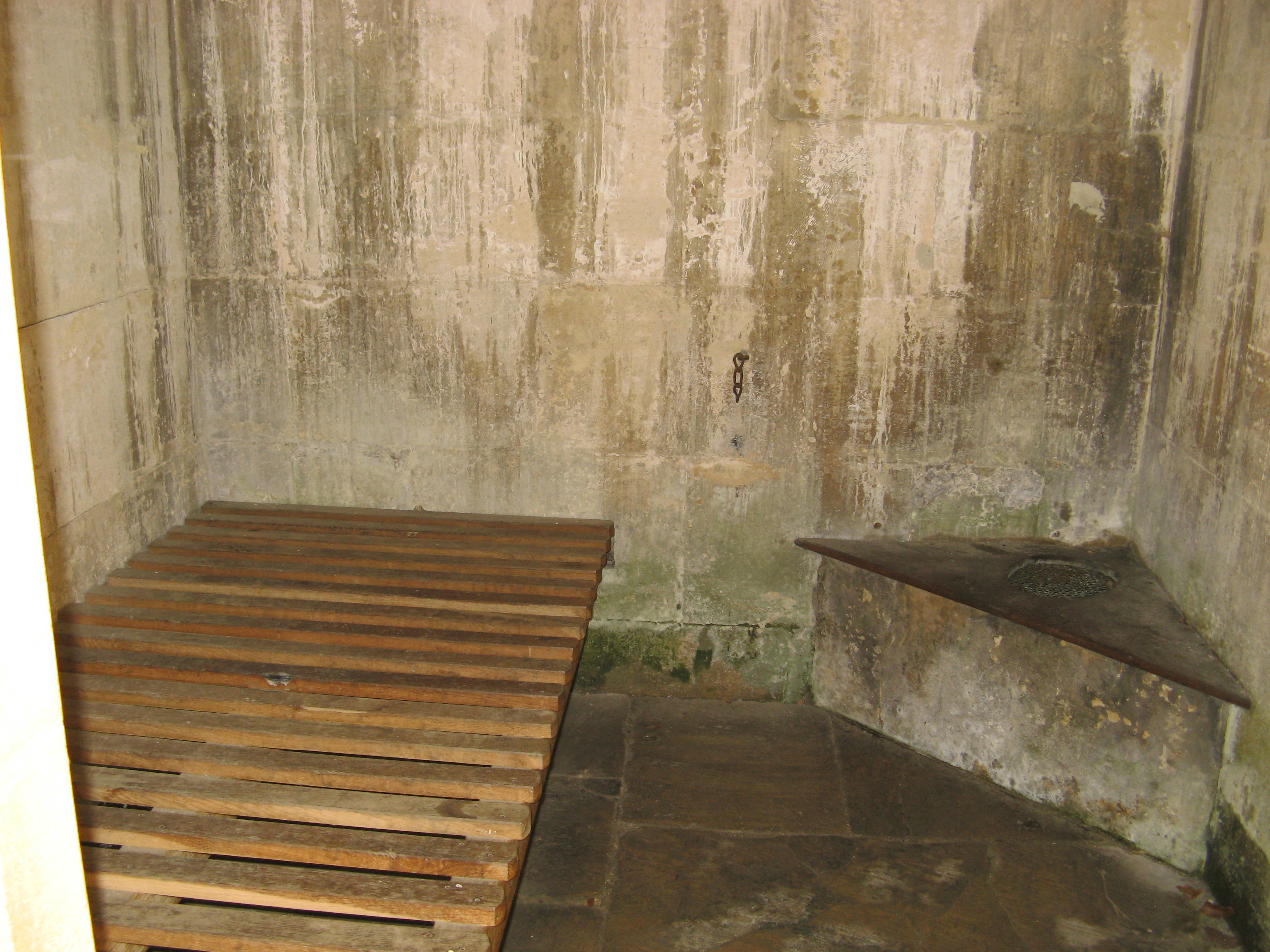 Interior of village lock-up in Lacock, Wiltshire. This is the entire interior of this single cell lock-up.